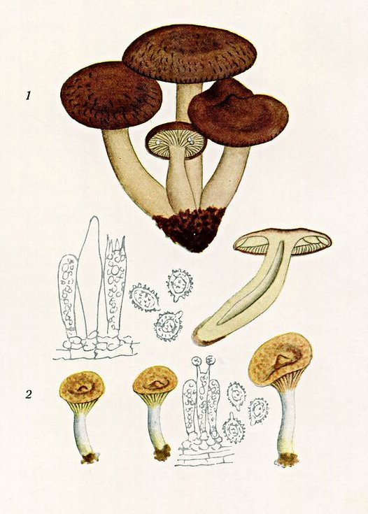 Iconographia Mycologica Vol. 8" Tab. 395 : L. subumbonatus & L. pusillus (L.pusillus is a synonym of L. alpinus); Copyright © 2001-2012 Gruppo Micologico «G. Bresadola» (This site is hosted by the server of the Science Museum.)